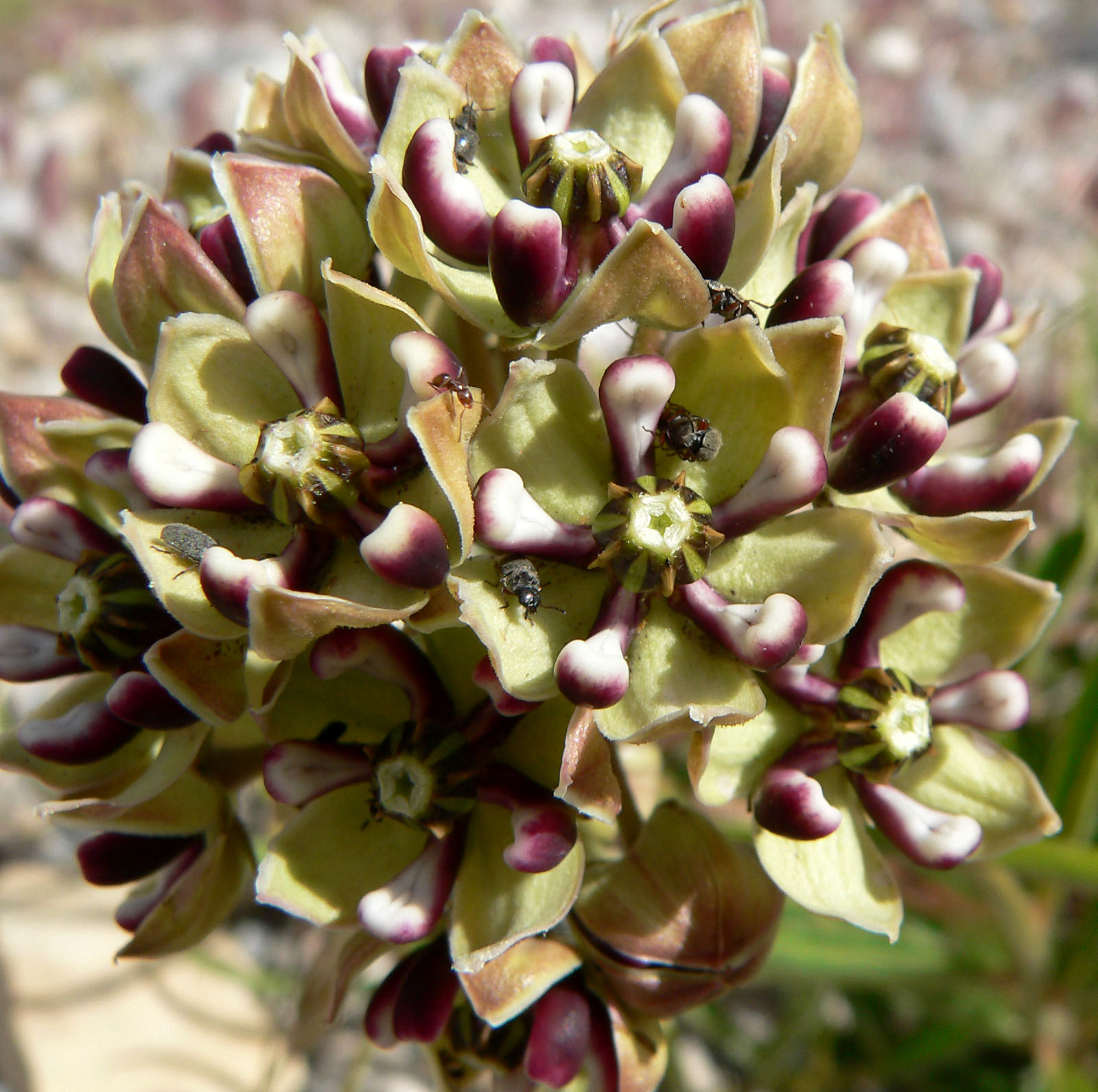 Asclepias asperula in Red Rock Canyon, Nevada